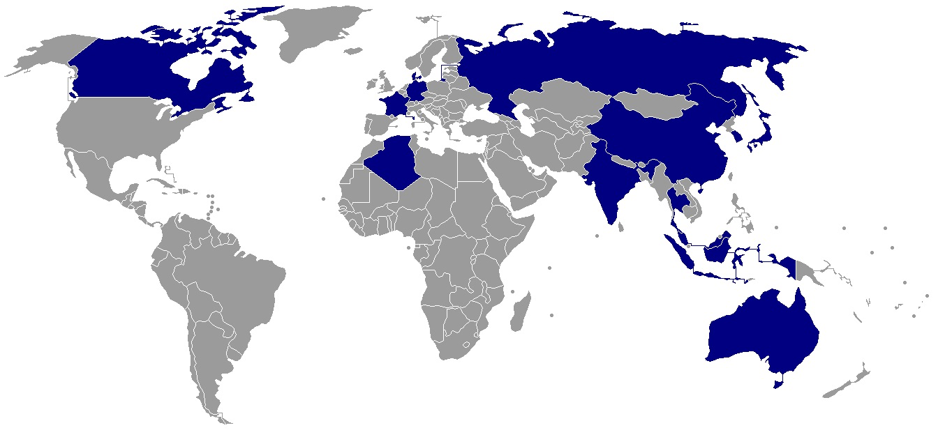 Participating nations in Thomas Cup 2018.